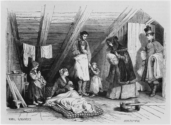 Visiting the poor, illustration from 'Le Magasin Pittoresque', Paris, 1844 by Karl Girardet